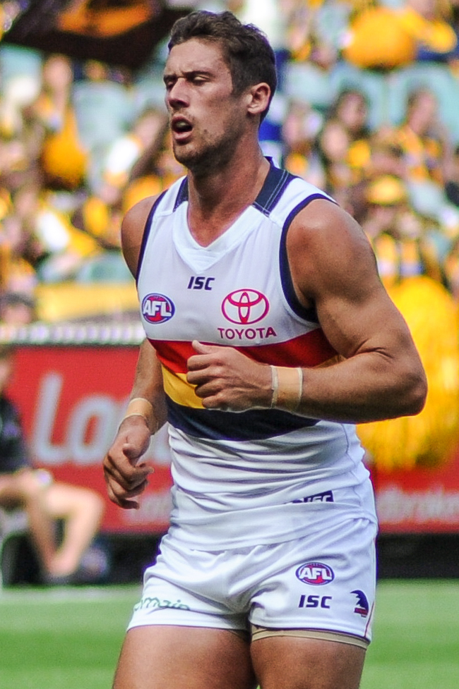 Kyle Hartigan during the AFL round two match between Hawthorn and Adelaide on 1 April 2017 at the Melbourne Cricket Ground in Melbourne, Victoria.